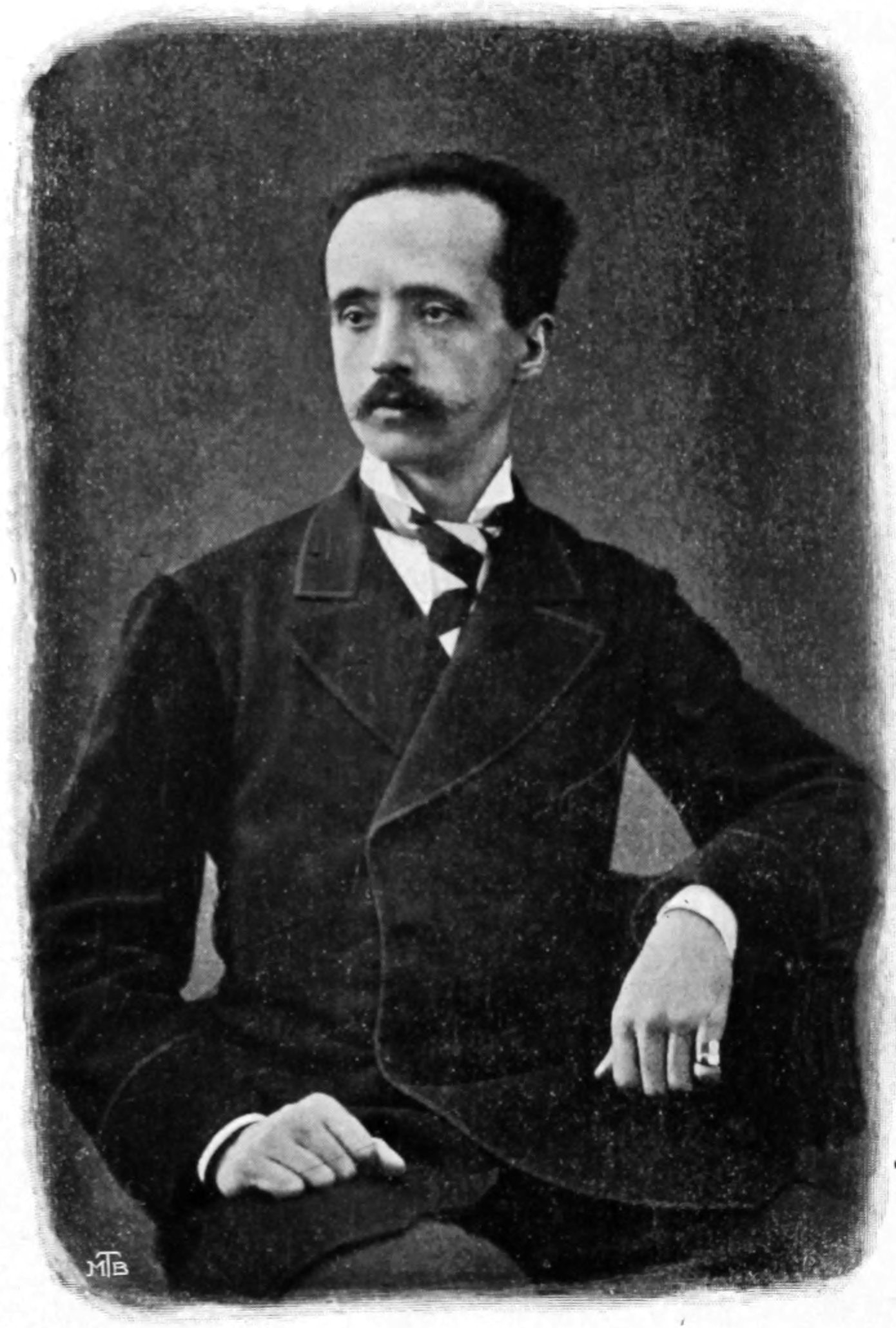 Image from book: Leopoldo Pullè, Patria Esercito Re, Ulrico Hoepli, Milan, 1908. - Urbano Rattazzi junior